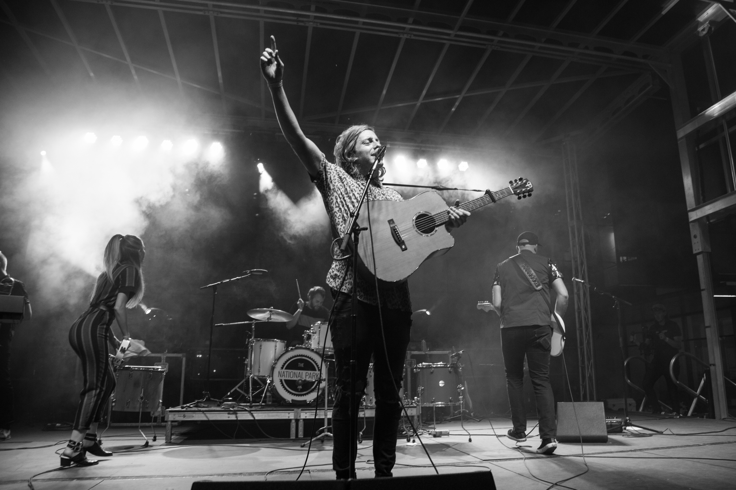 The National Parks perform for 10,000 fans at Provo's Rooftop Concert Series in July 2016. Photographed by Justin Hackworth.